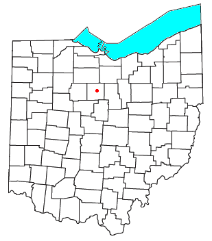 Locator map of the unincorporated community of Sulphur Springs in Crawford County, Ohio, United States.